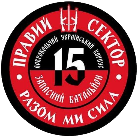 Sleeve patch of the 15th Replacement Battalion for the Ukrainian Volunteer Corps (UVC)